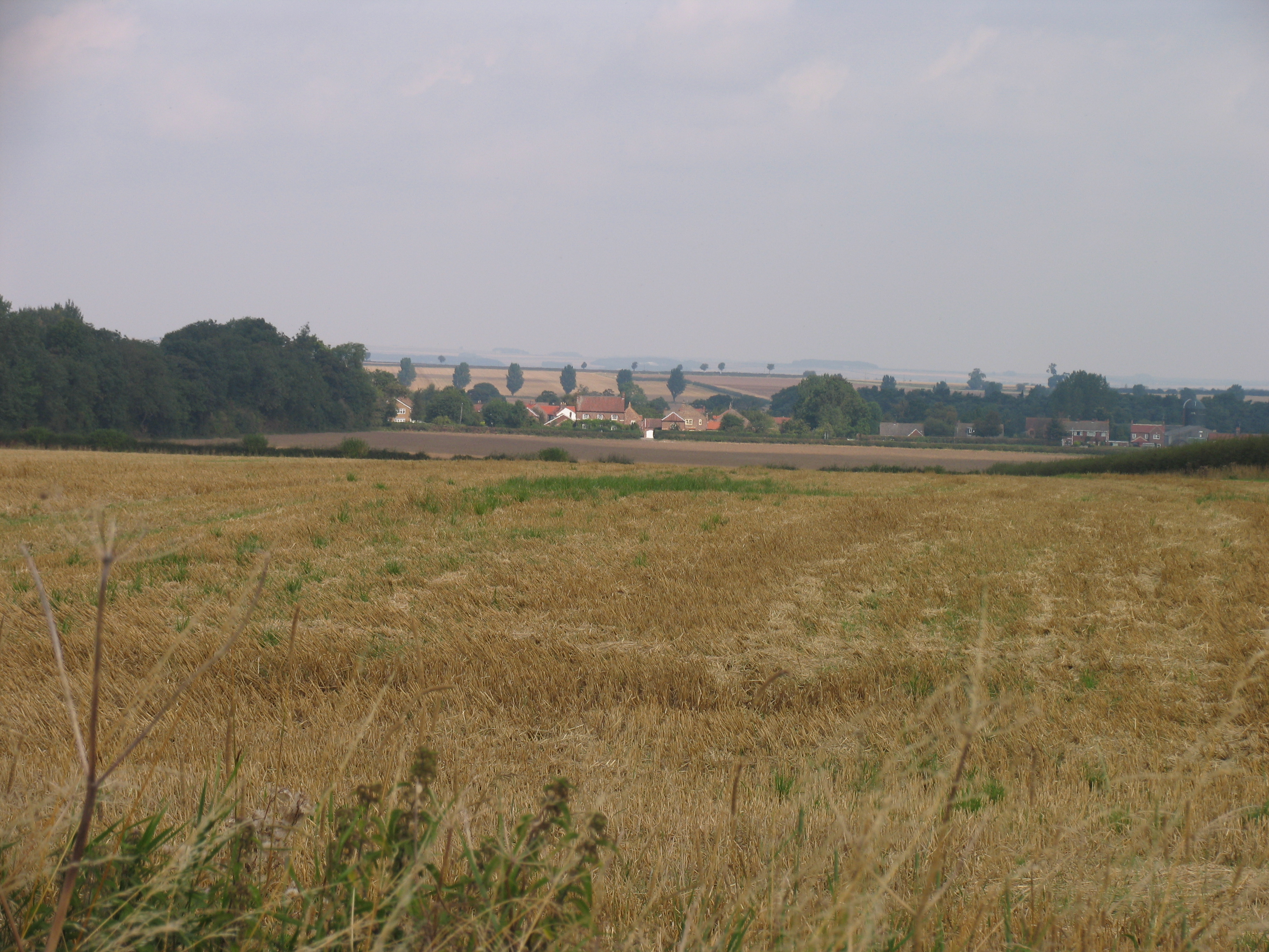 Kilnwick, East Riding of Yorkshire, England. Viewed from the south, showing the East Belt Plantation to the west.